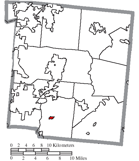 Map of the municipal and township boundaries of Warren County, Ohio, United States, as of the 2000 census, with the location of the village of Maineville highlighted. Township borders are shown only in unincorporated areas in order to differentiate incorporated and unincorporated areas more clearly.